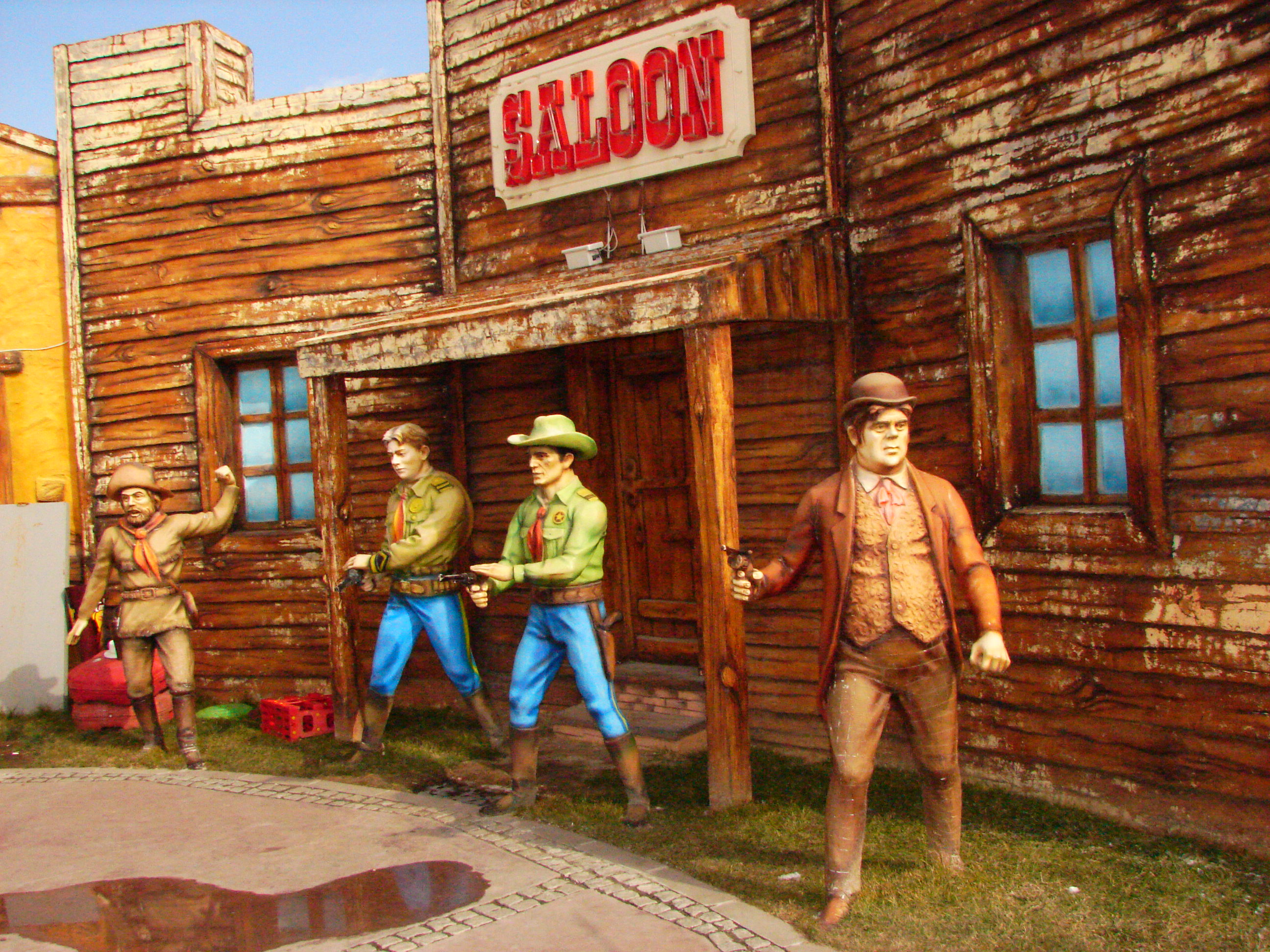 Ankara Amusement Park (characters from italian comic "Captain Miki")